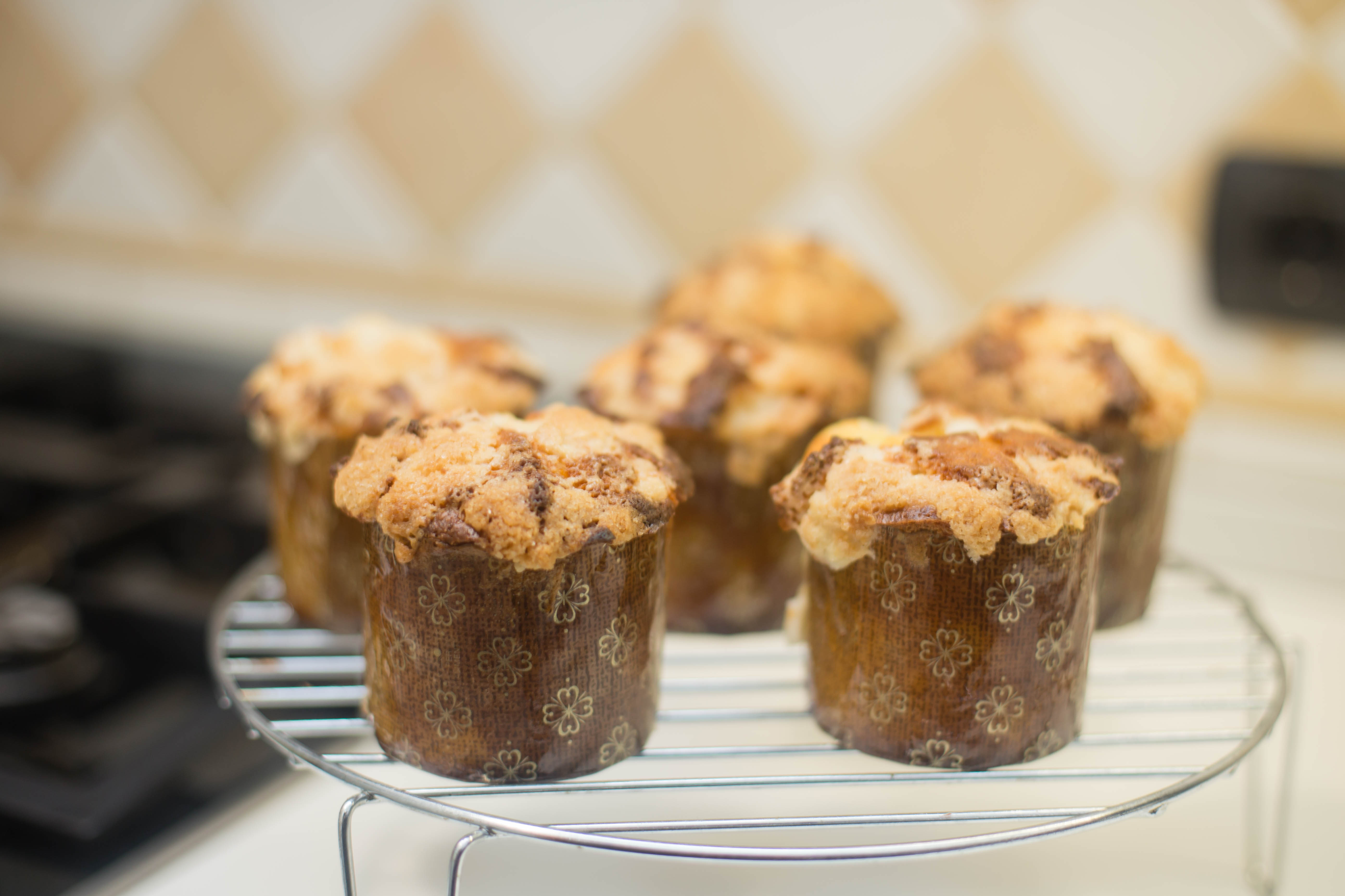 Panettone shaped muffins IMG_0789